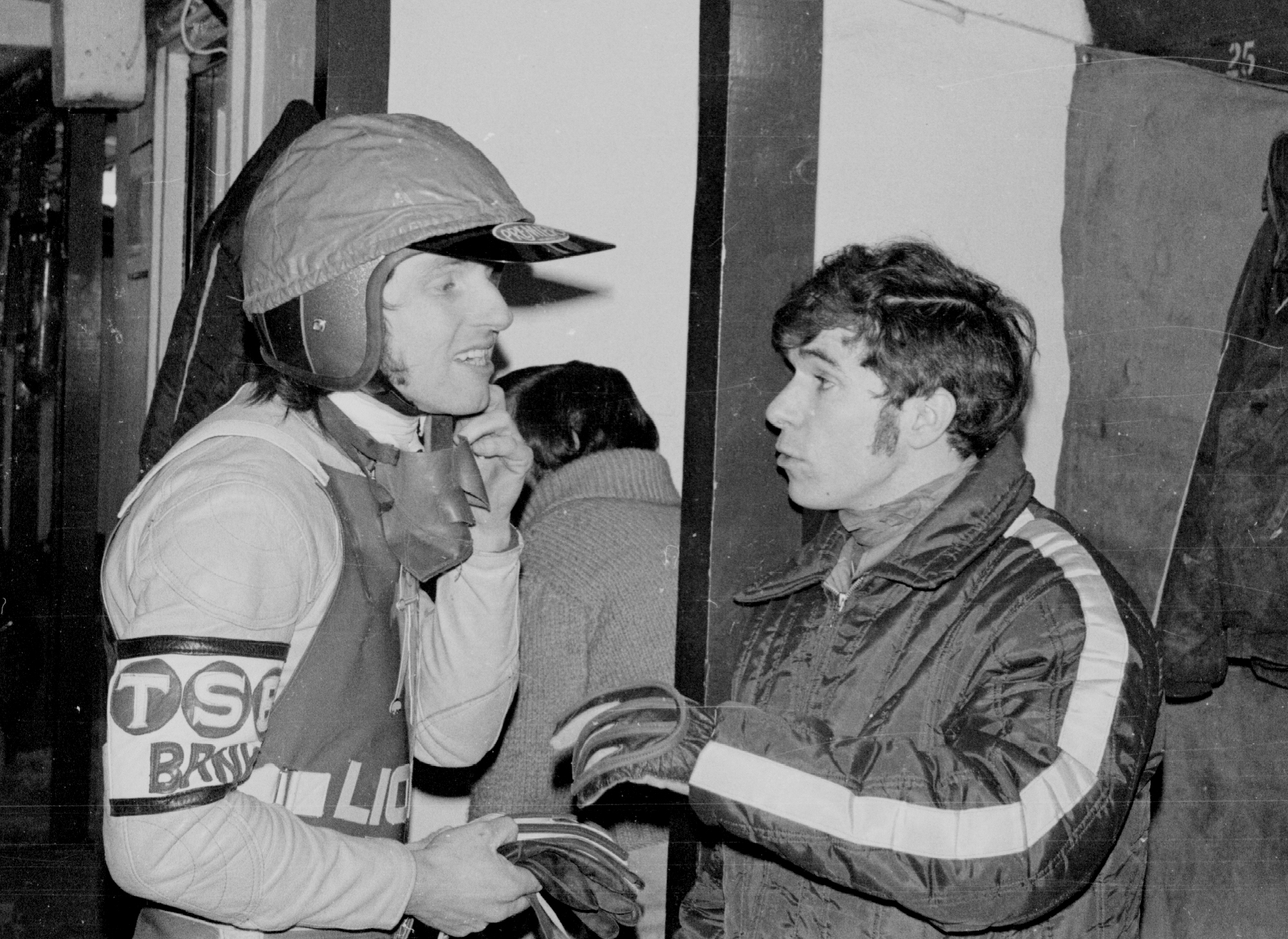 Two stars of Leicester Lions - Ray Wilson and Dave Jessup